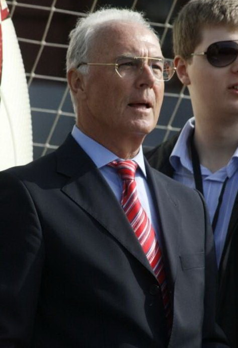 Franz Beckenbauer